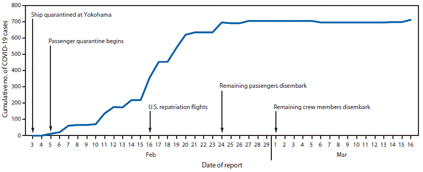 Cumulative number of confirmed coronavirus disease 2019 (COVID-19) cases by date of detection — Diamond Princess cruise ship, Yokohama, Japan, February 3–March 16, 2020